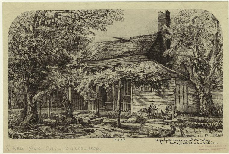 "Rapelyea House, or White Cottage, foot of 34th Street and North River." Etching by Eliza Greatorex. Print courtesy of the New York Public Library Digital Collection.